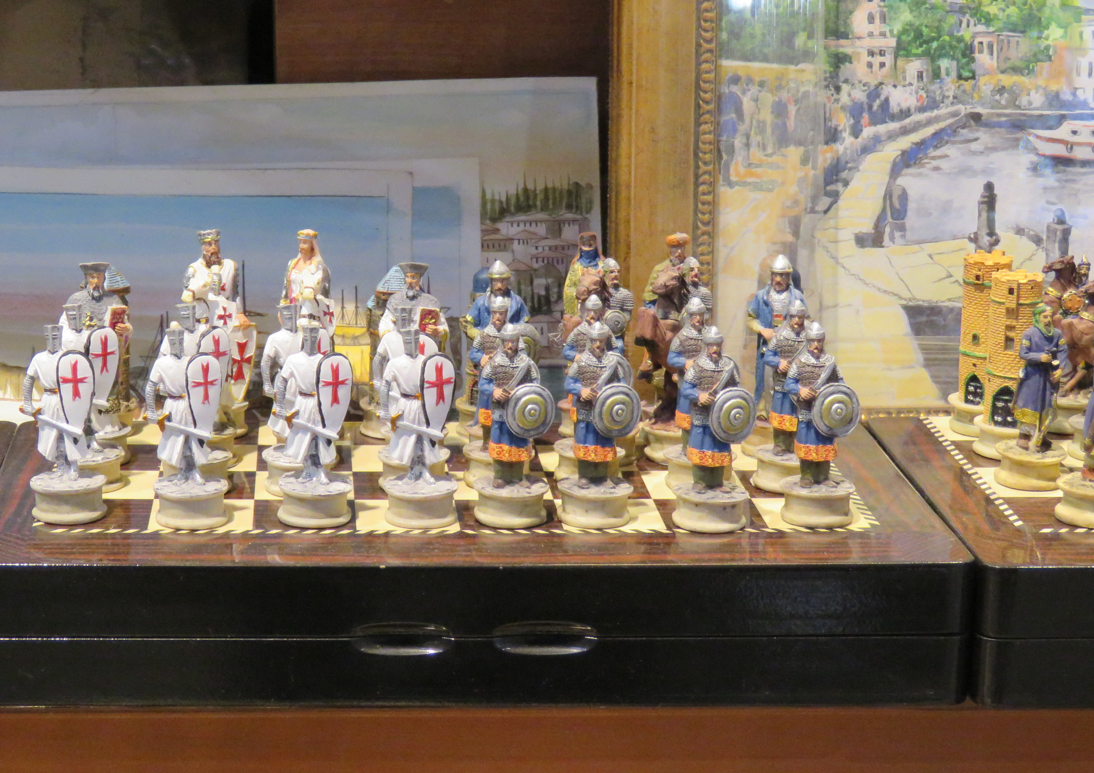 The Grand Bazaar (Turkish: Kapalıçarşı, meaning ‘Covered Market’; also Büyük Çarşı, meaning ‘Grand Market’) in Istanbul is one of the largest and oldest covered markets in the world, with 61 covered streets and over 4,000 shops.